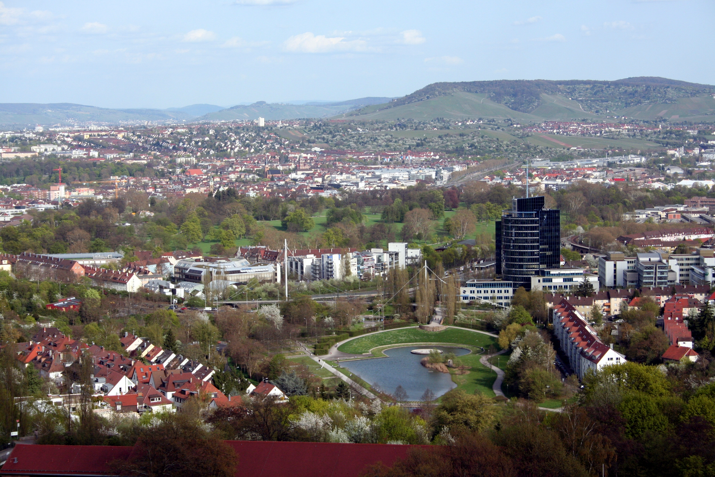 Im Vordergrund der Stadtbezirk Stuttgart-Nord mit dem Egelsee, Bülow-Tower und in der Bildmitte der Rosensteinpark. Im Hintergrund ist Bad Cannstatt mit der Lutherkirche und Herz-Jesu-Kirche zu sehen. Dahinter beginnt mit Fellbach der Rems-Murr-Kreis, rechts am oberen Bildrand ist der Kappelberg zu erkennen.